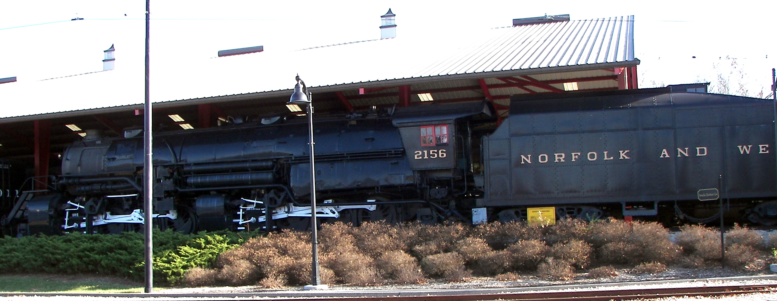 Norfolk & Western 2156, a 2-8-8-2 steam locomotive on display at the Museum of Transportation.